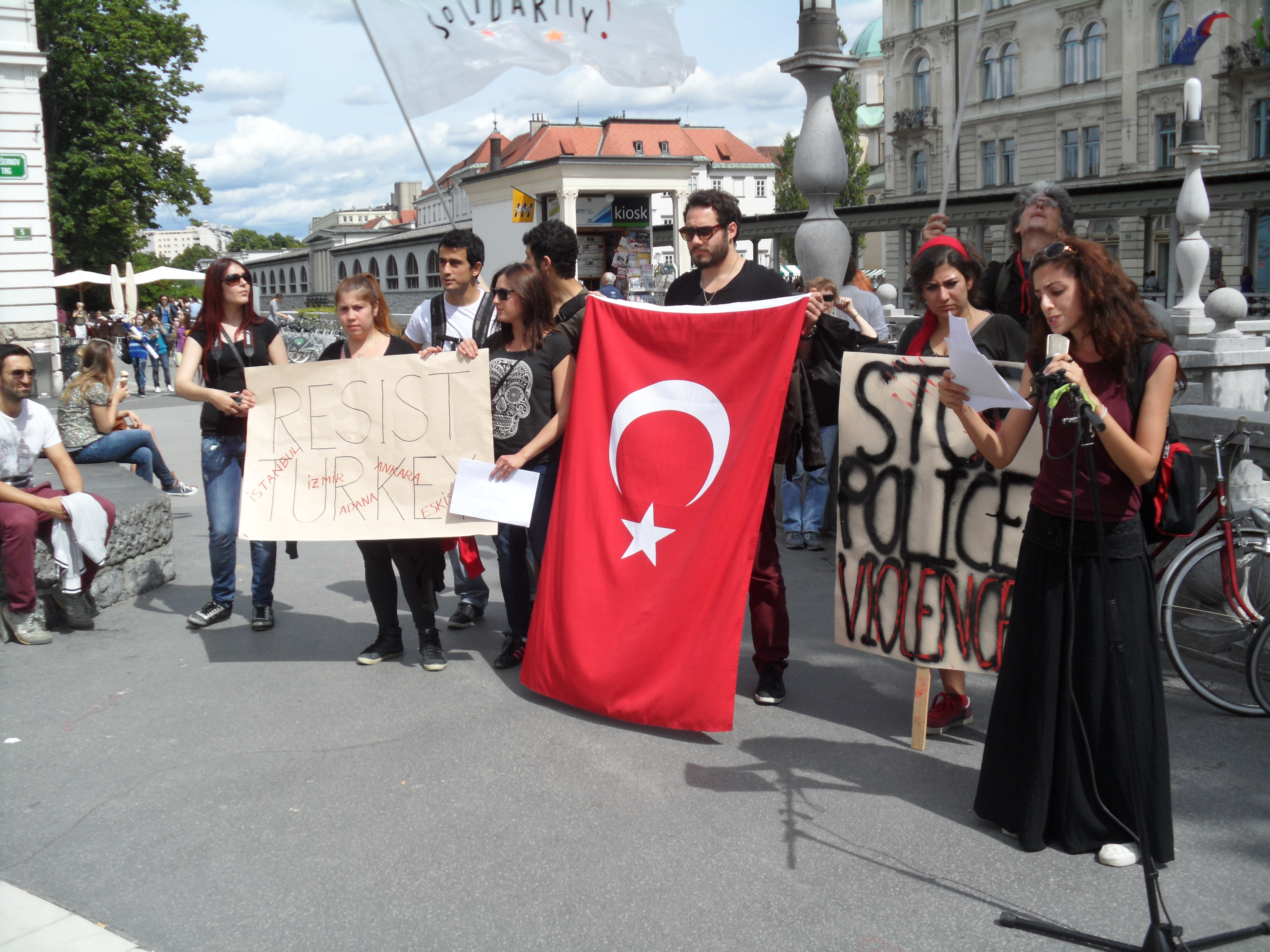 Turkey, You are not alone -- Slovenian solidarity march with the Turkish uprising. Around 100 people gathered on Monday, 3 June 2013, in front of the Turkish embassy in Ljubljana, Slovenia, to condemn the police brutality and to show solidarity with insurections in Turkey. This was the second solidarity march with the Turkish uprising in Ljubljana (the first one was held on Saturday, 1 June 2013).